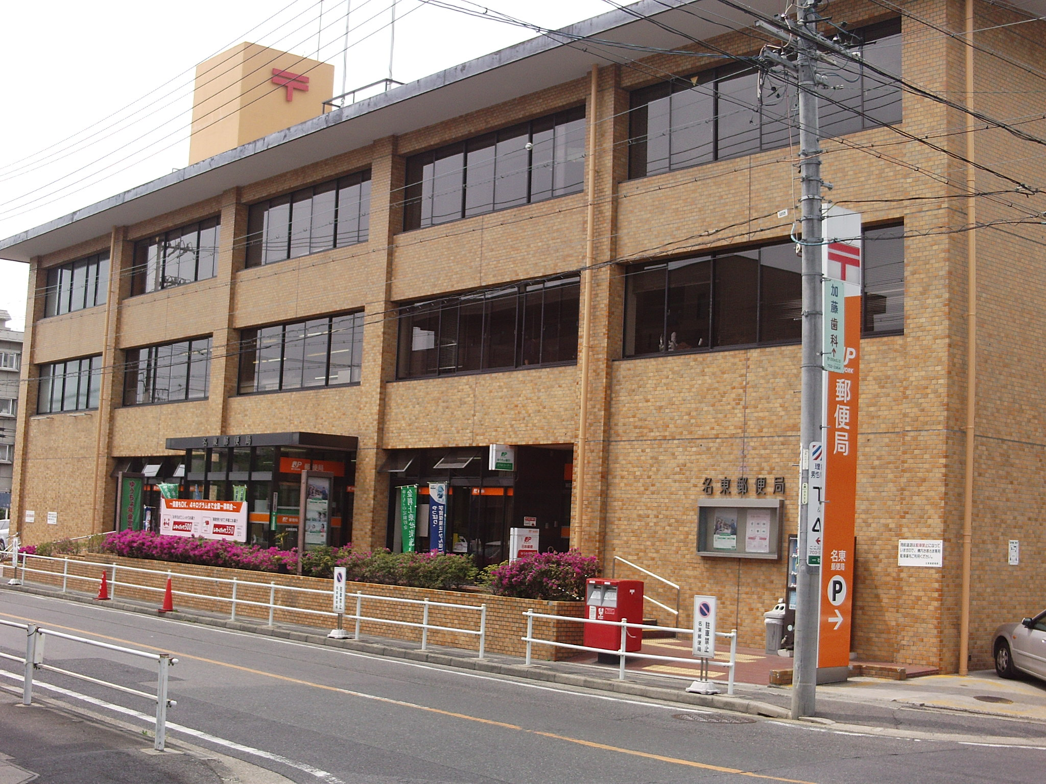 Meitō Post Office in Meitō-ku, Nagoya, Aichi, Japan.